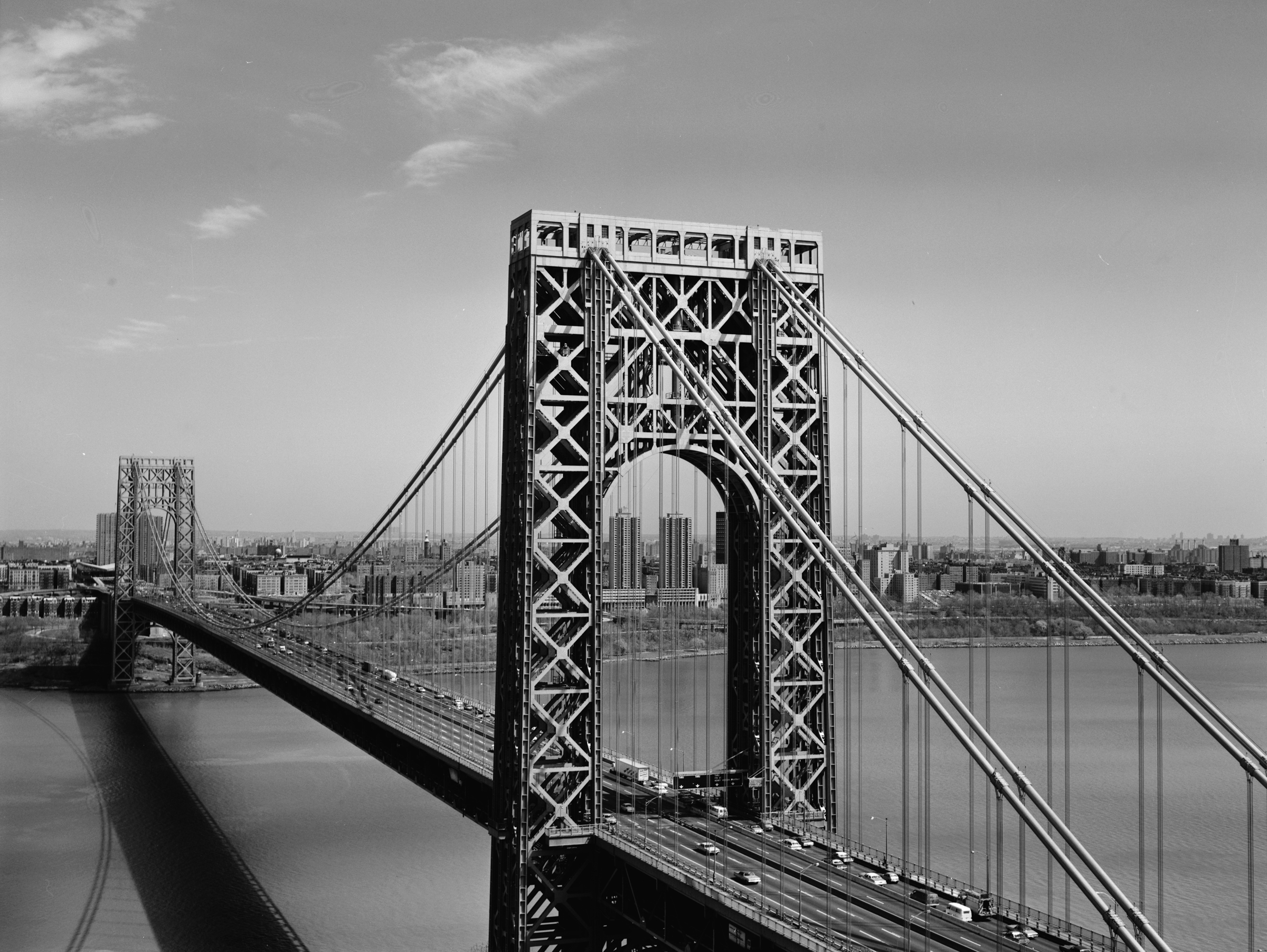 Looking east at the George Washington Bridge, spanning the Hudson River between New York City and New Jersey.View from top of New Jersey Tower to New York Tower.